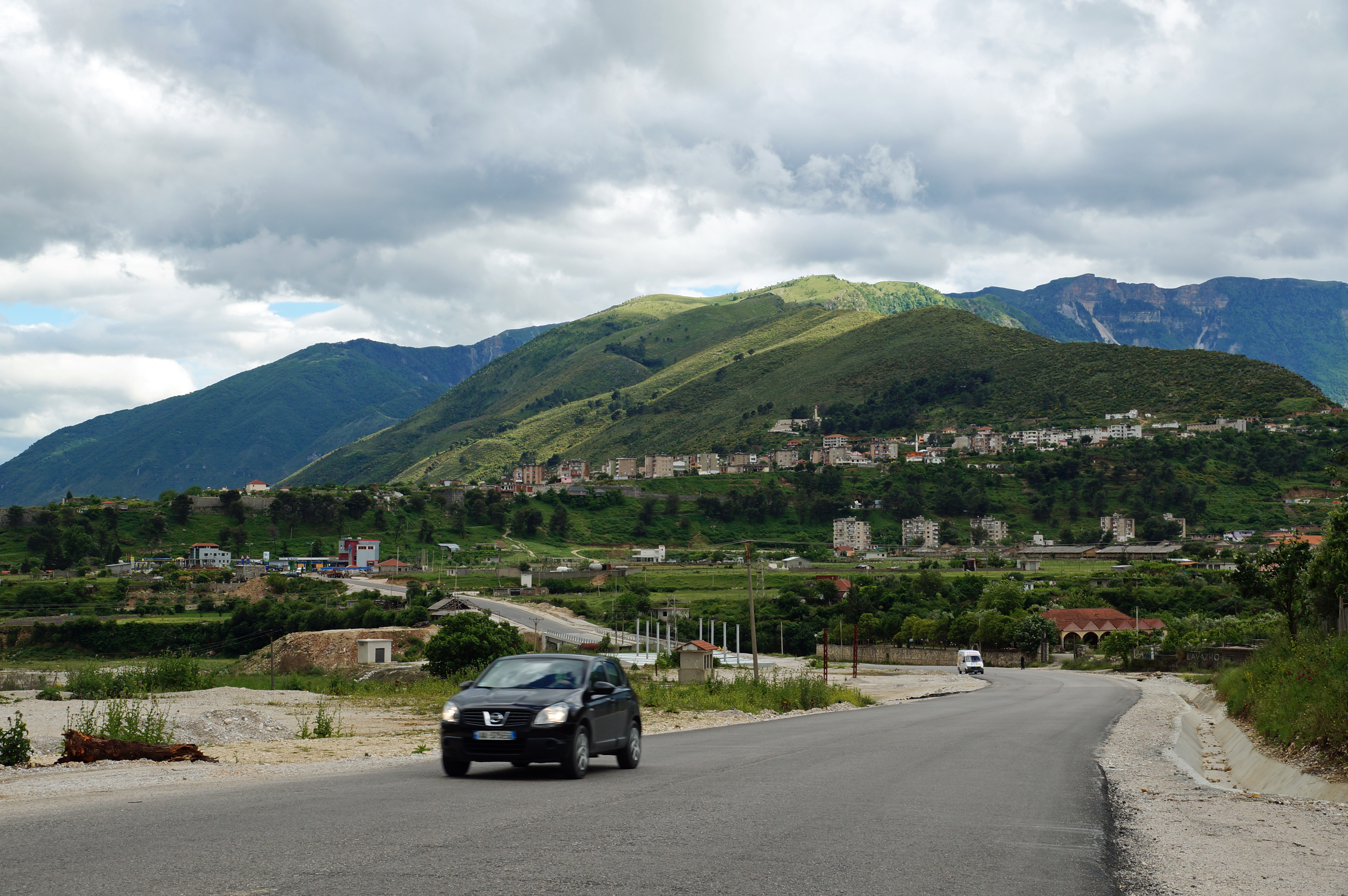 Tepelena, South Albania – castle to the left